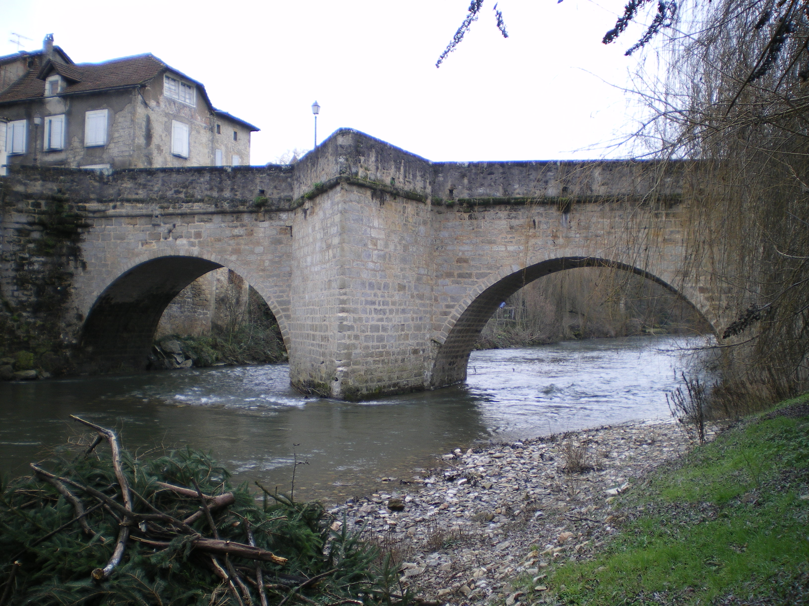 Pin's bridge, Figeac, France